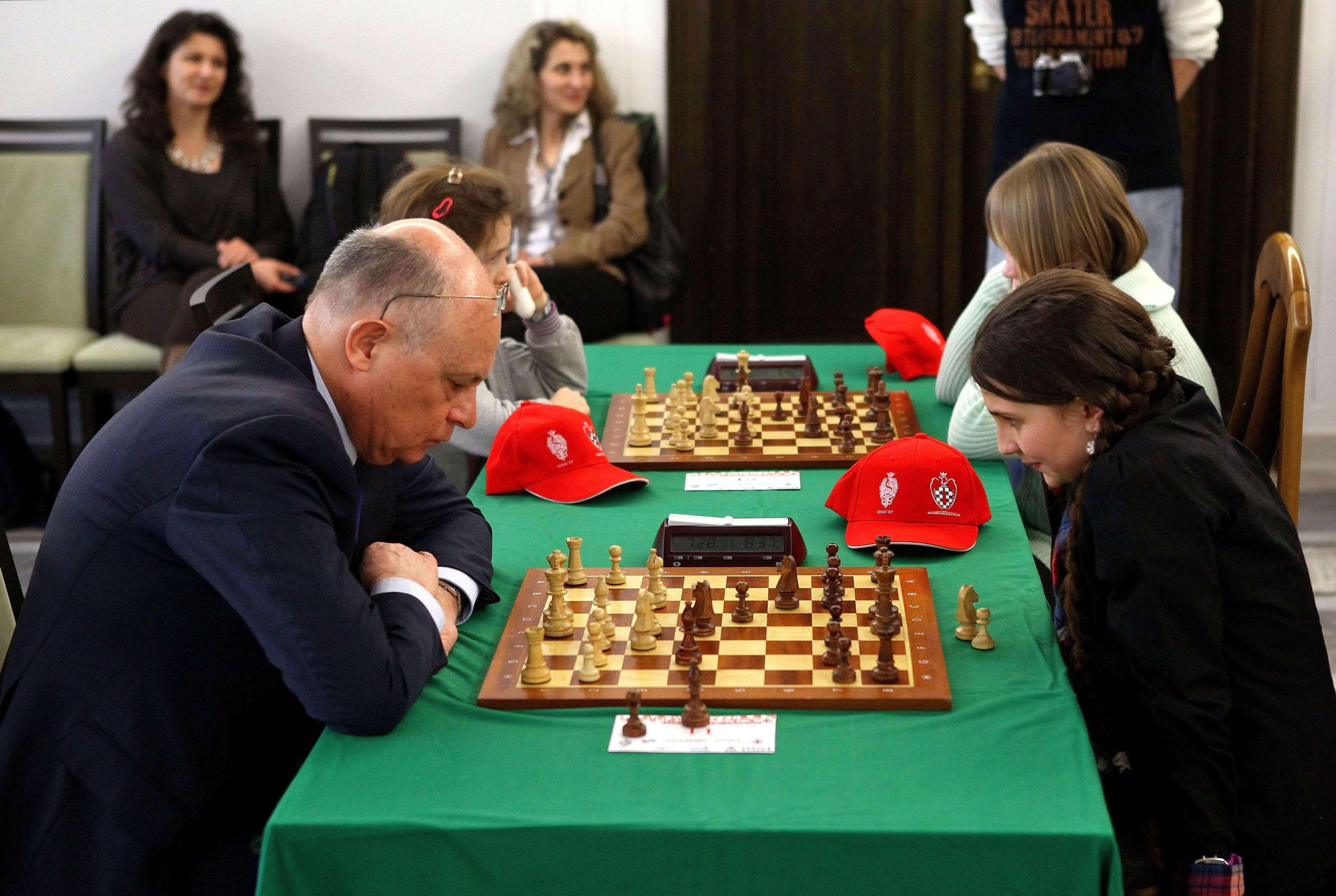 Senator Marek Borowski during the chess tournament "Chess players playing for Polish diaspora" (junior chess players vs members of Parliament) in the Polish Senate